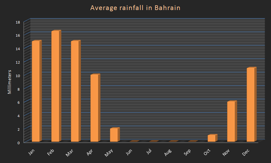 Chart displaying the monthly rainfall in an average year in Bahrain. Software used to generate this file is Microsoft Office Excel 2007.